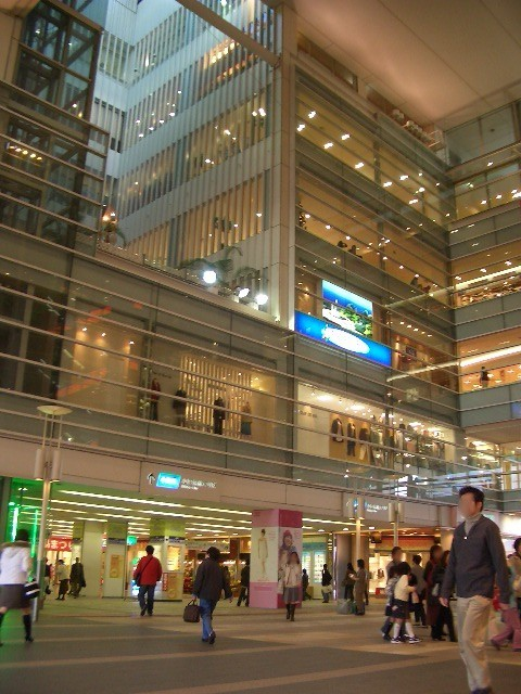 Odakyu Electric Railway Sagami-Ono Station building (Minami-ku, Sagamihara City, Kanagawa Prefecture, JAPAN)